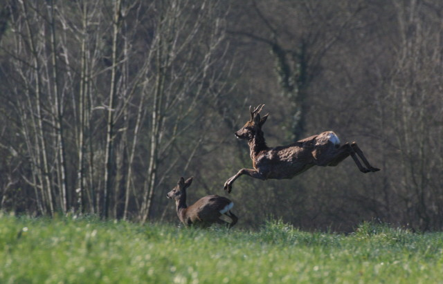 Jumping Roe Deer